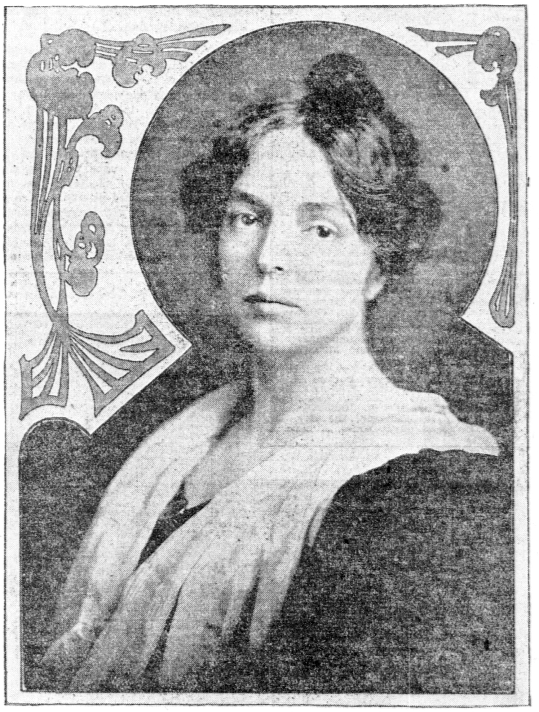 Portrait of Theo Alice Ruggles Kitson published in New-York Tribune, New York, N.Y., 20 Dec. 1903.